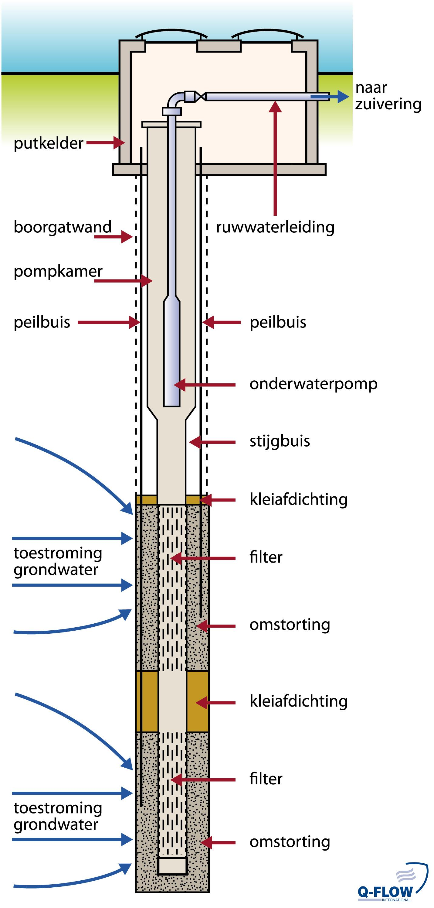 Doorsnede van een bron met meerdere filtersecties voor ontrekking aan meerdere watervoerende paketten in de bodem, afgesloten met een ondoordringbare kleilaag